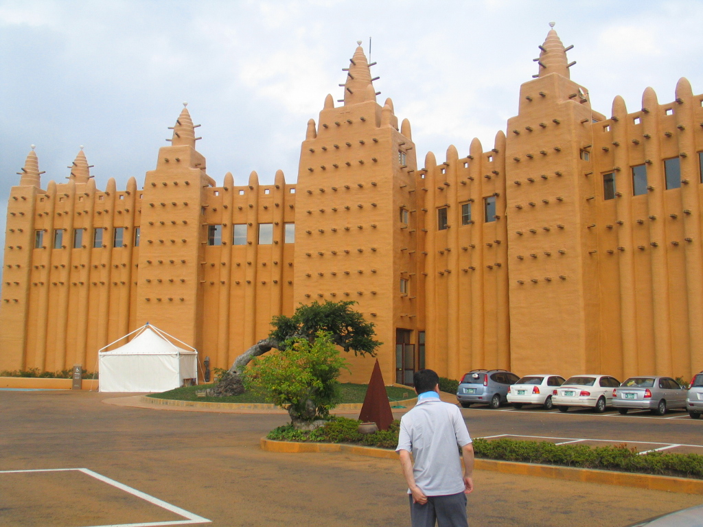 Africa Museum, Seogwipo